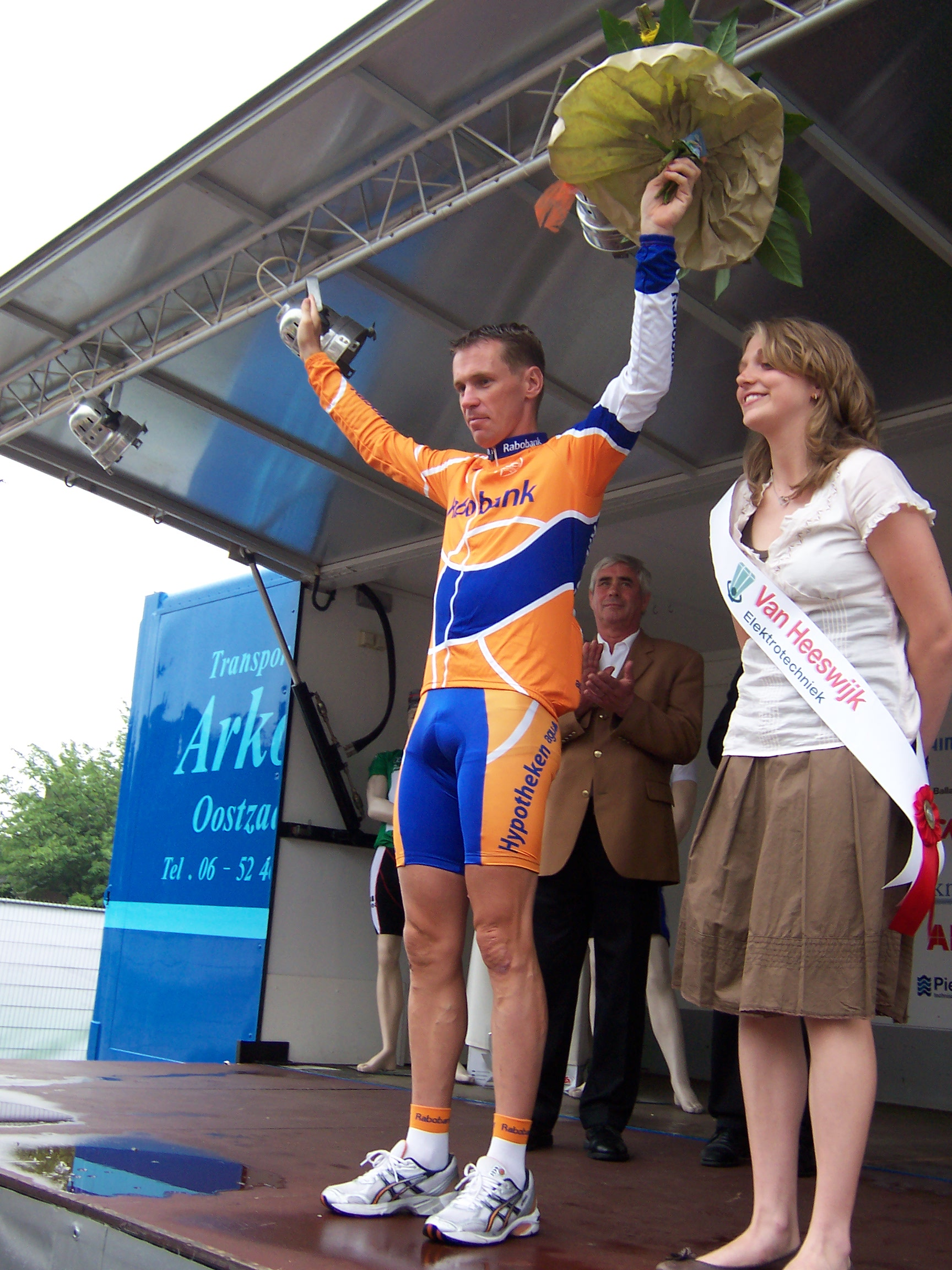 Erik Dekker wins a stage in the Ster Elektrotour (2006)